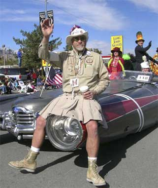 Black Rock Ranger "Teksage", a volunteer mediator at Burning Man, rides an Mutant Vehicle during the Nevada Day parade.